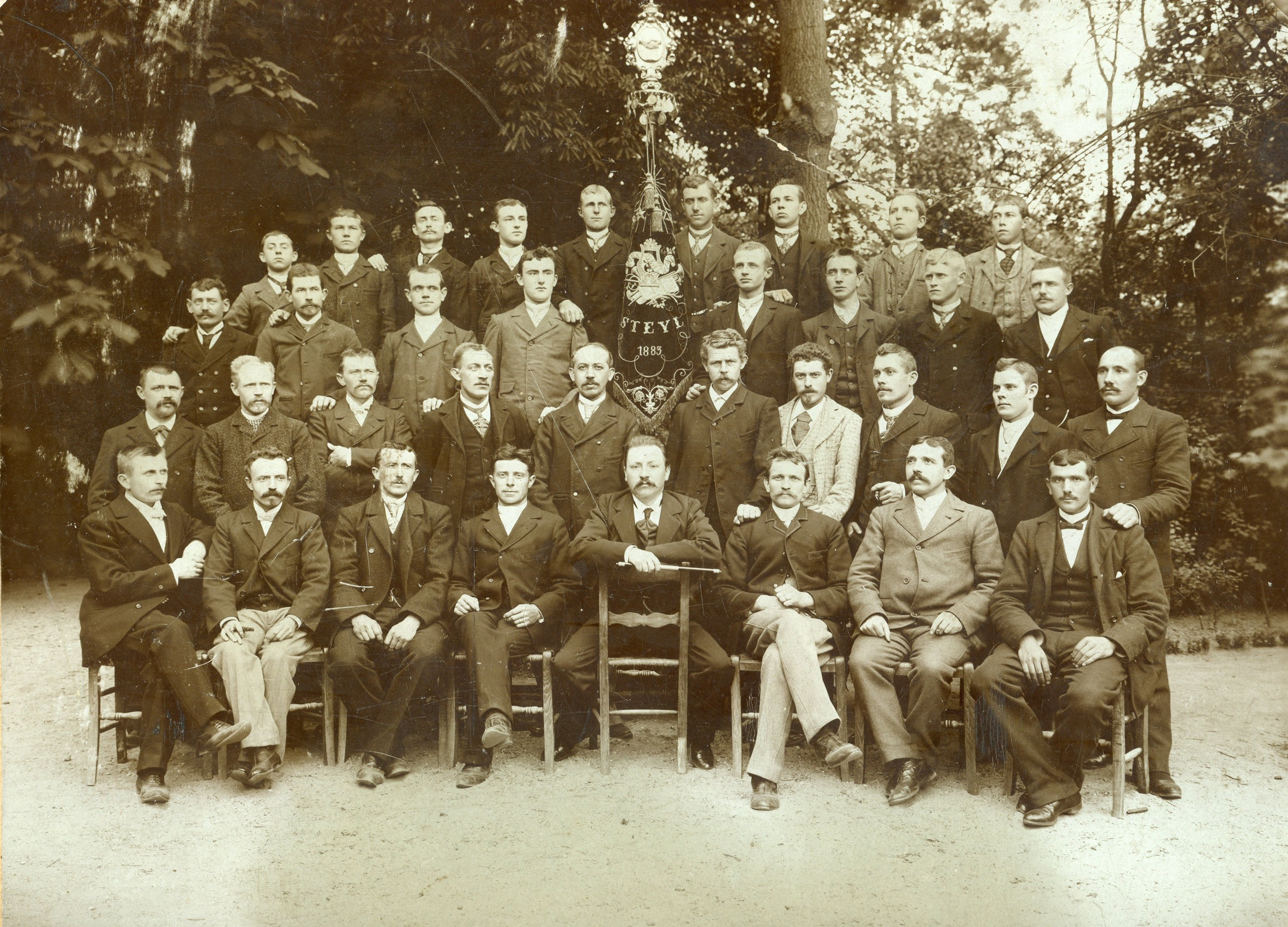 Oldest picture of the men's choir Zangvereniging Vriendenkring Steyl.